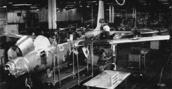 Assembly of U.S. Navy Temco TT-1 Pinto trainers at Temco Aircraft in Dallas, Texas (USA). In front is the first of 14 U.S. Navy TT-1s, BuNo 144223.